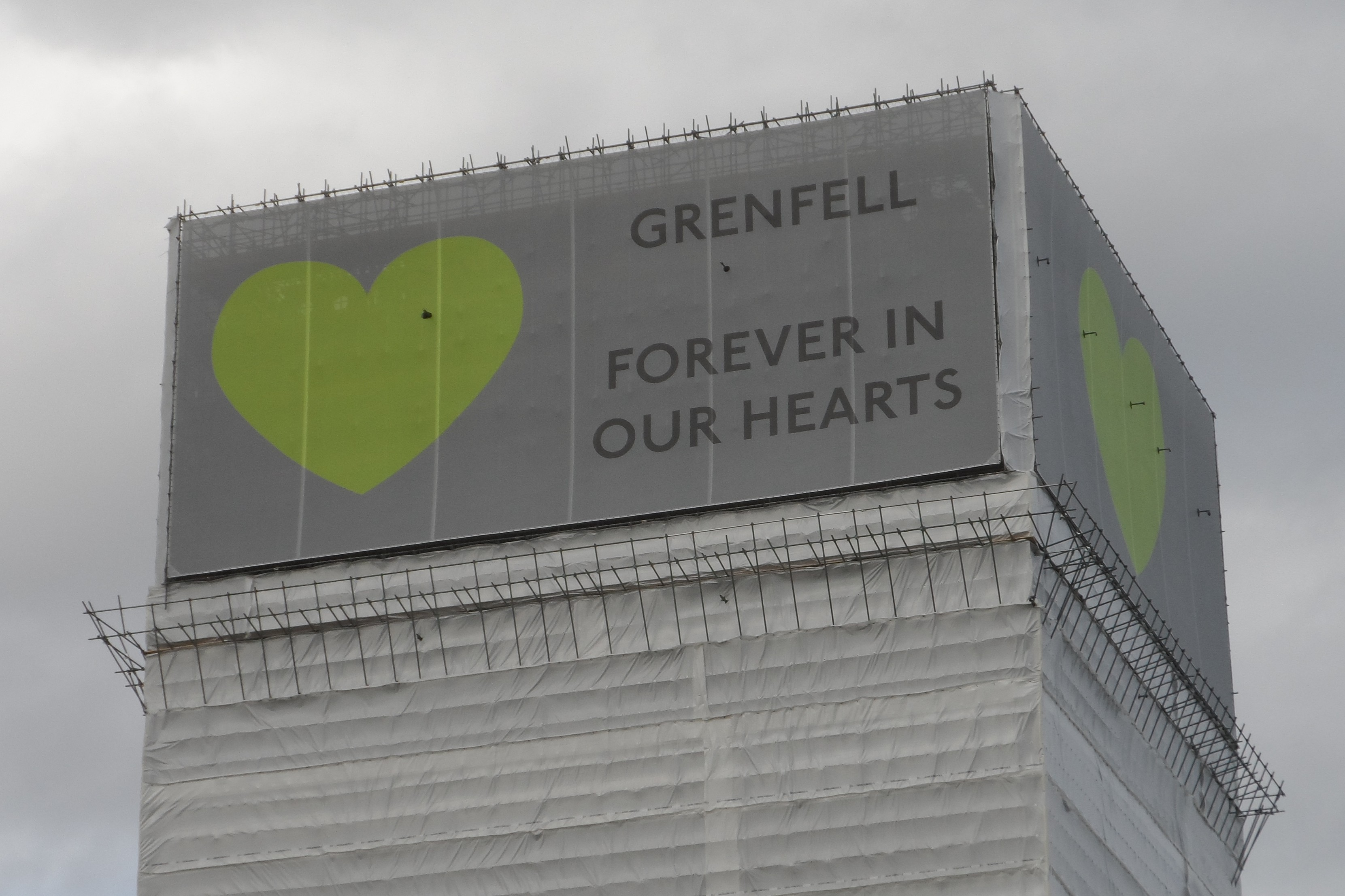 Grenfell Tower with banners at the top with heart symbol and the wording "Grenfell Forever In Our Hearts" in June 2018. The topping out of the protective sheeting and scaffolding took place in time for the 1-year anniversary of the Grenfell Tower Fire.